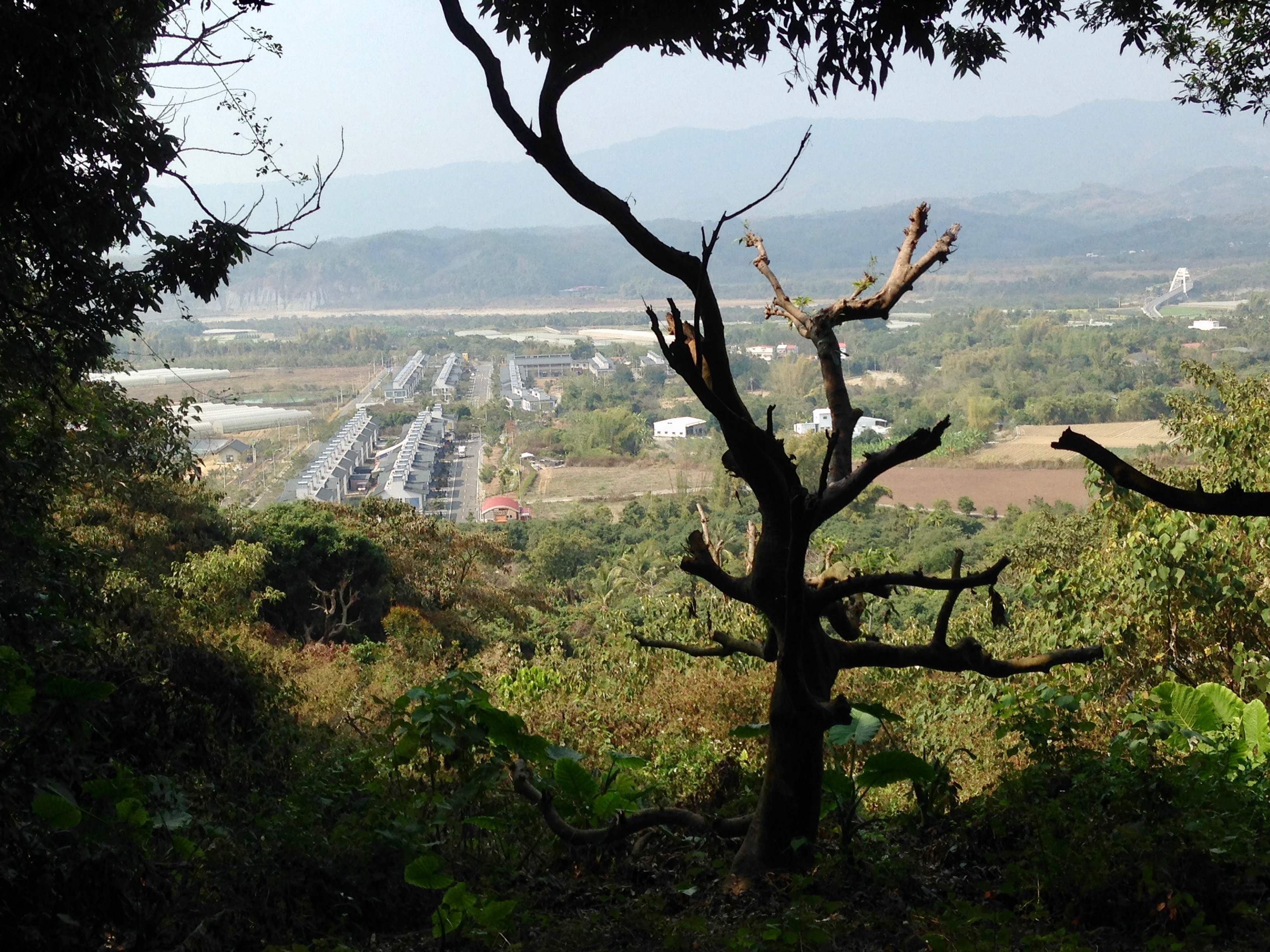 Overlooking Sunrise Xiaolin community of indigenous Taivoan people.